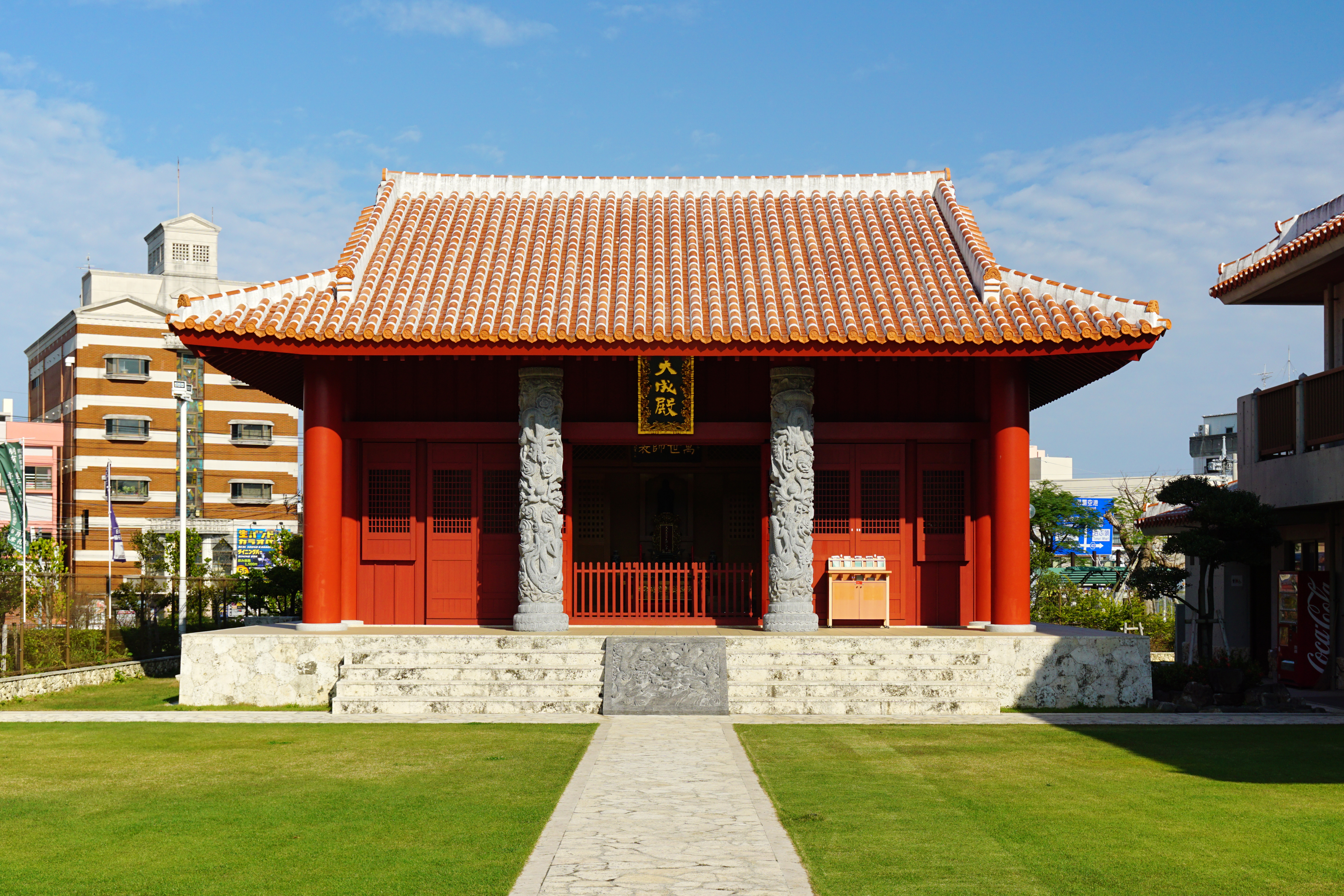 Kume Shiseibyo in Naha, Okinawa prefecture, Japan